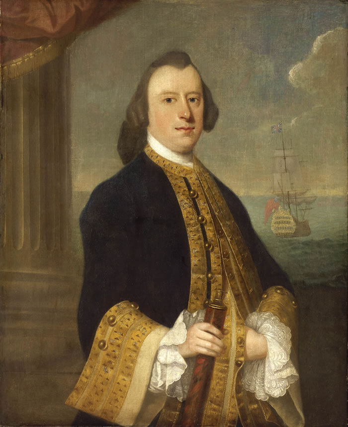 "Captain John Reynolds"